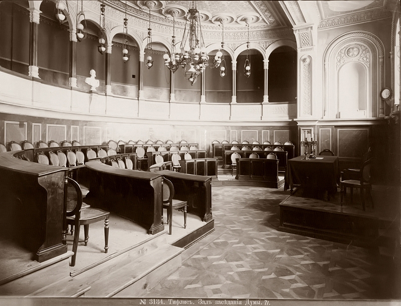 Tbilisi. Tbilisi City Assembly (Sakrebulo) - Main Hall